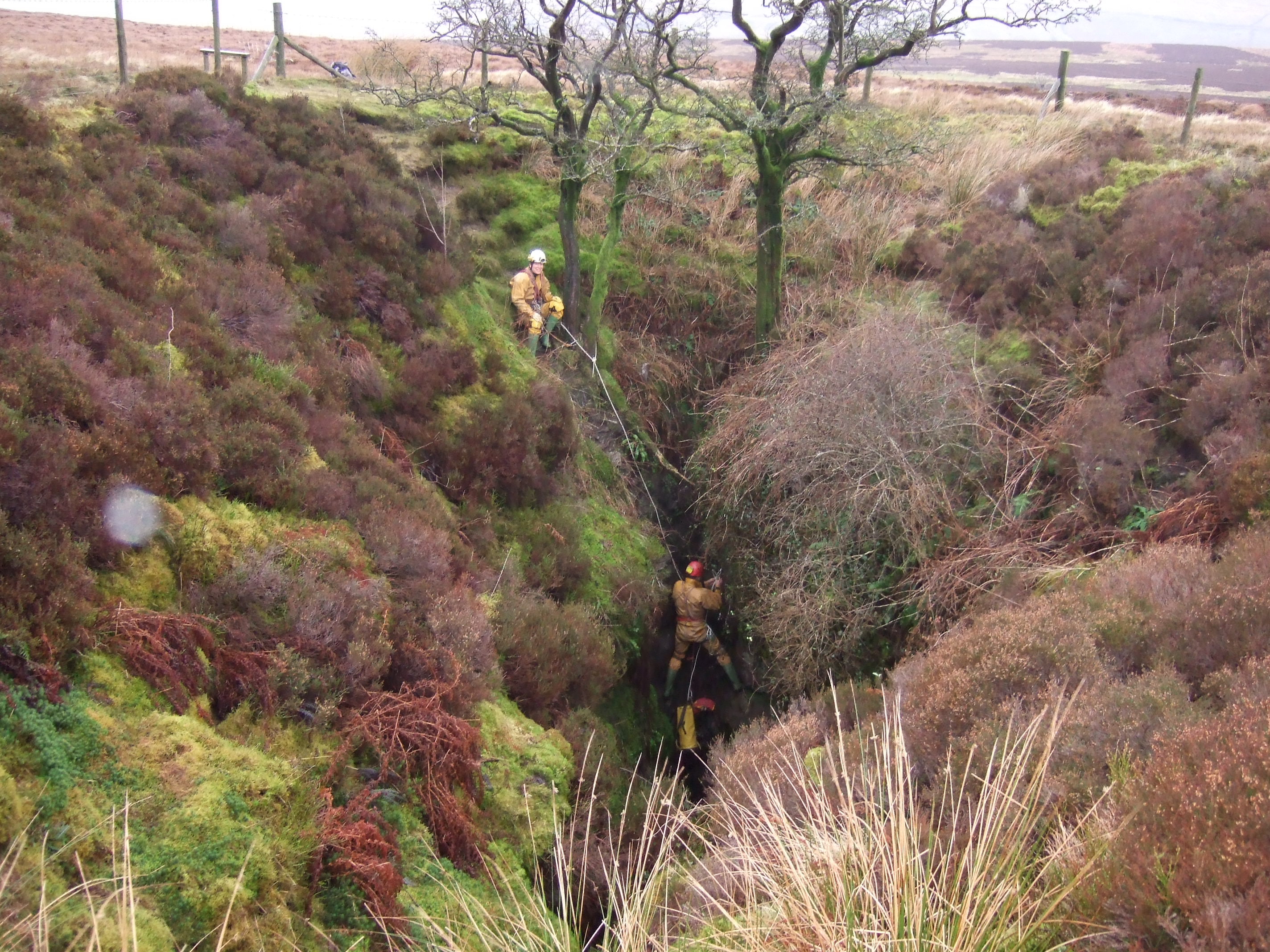 Entrance to Rumbling Hole in Leck Fell. It is one of many Ponors in the Karst topography of North Yorkshire.